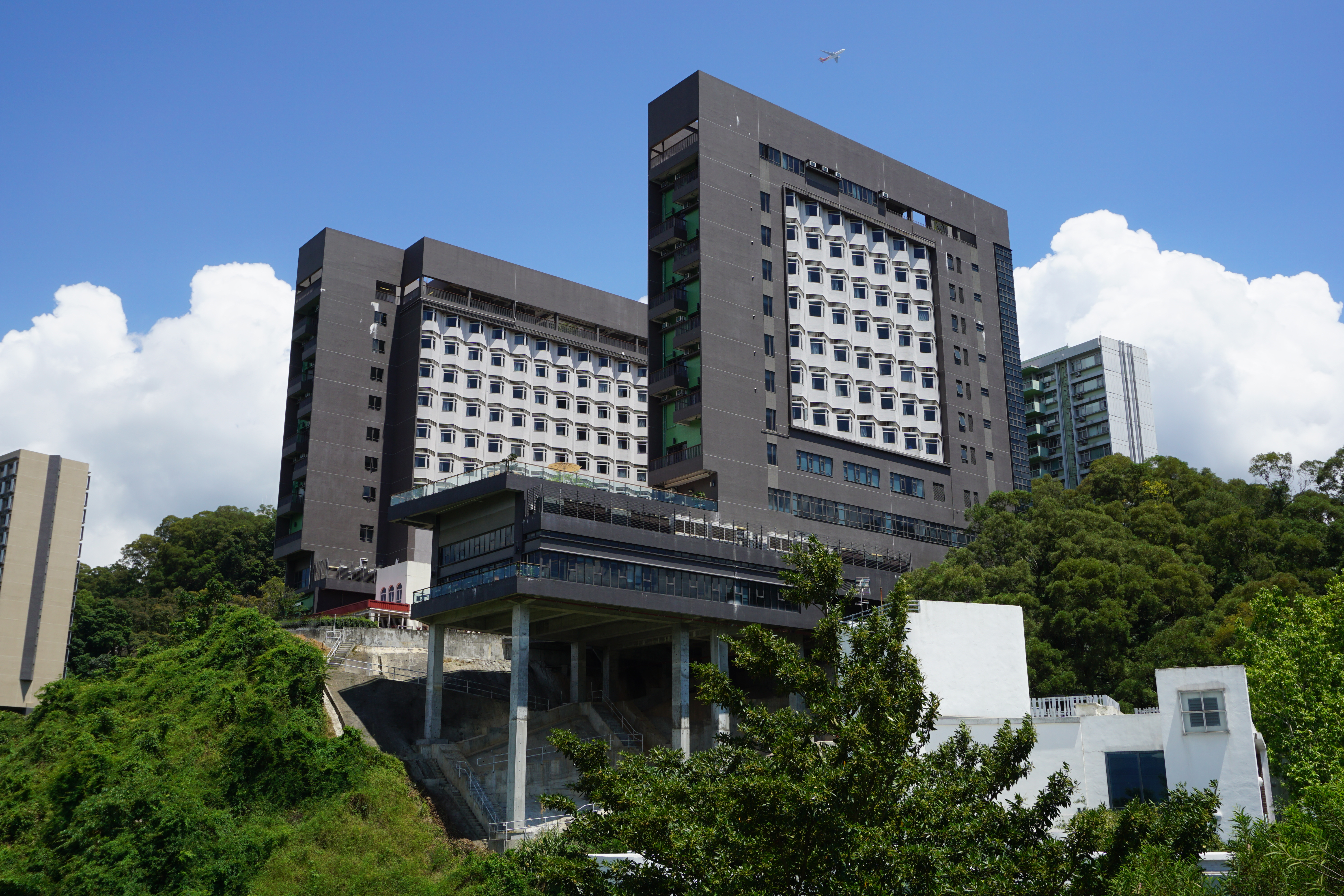 Wu Yee Sun College in Ma Liu Shui, Hong Kong.